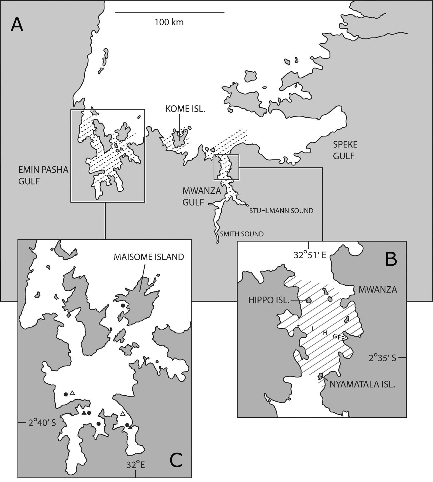 Tanzanian part of Lake Victoria. A, distribution of Haplochromis argens (hatched area) B Mwanza Gulf with catch localities of type specimens of Haplochromis argens (hatched area); E to J represent stations along the research transect where data on abundance of Haplochromis argens were collected C Emin Pasha Gulf with catch localities of type specimens of Haplochromis argens (filled circles) and type specimens of Haplochromis goldschmidti (filled triangles); open triangles indicate other catch localities of Haplochromis goldschmidti.